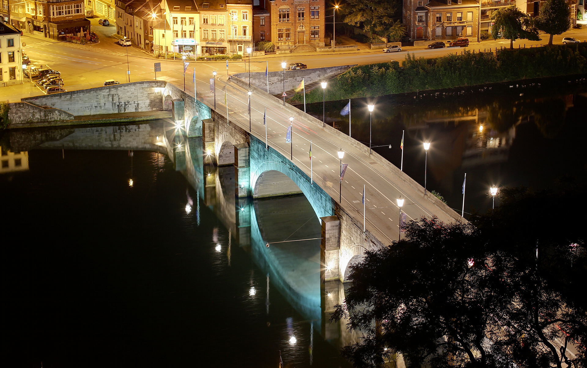 The Pont de Jambes, the bridge of Jambes across the river Meuse in Jambes, Namur, Belgium.